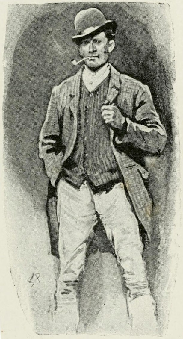 Illustration of the short story A Scandal in Bohemia, which appeared in The Strand Magazine in July, 1891. This illustration appeared on page 67, and is captioned, "A DRUNKEN-LOOKING GROOM."